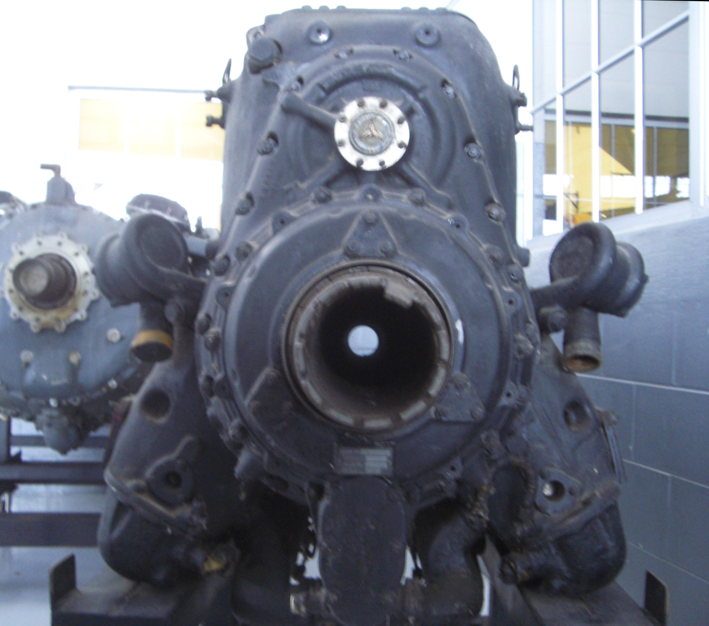 Daimler-Benz DB 605 on display at the Kermit Weeks collectio, Florida USA. View shows hollow propeller shaft for 20mm and 30mm motorkanone as used in some WWII German fighter aircraft. The propeller shaft is driven by the crankshaft that is located above the propeller shaft.